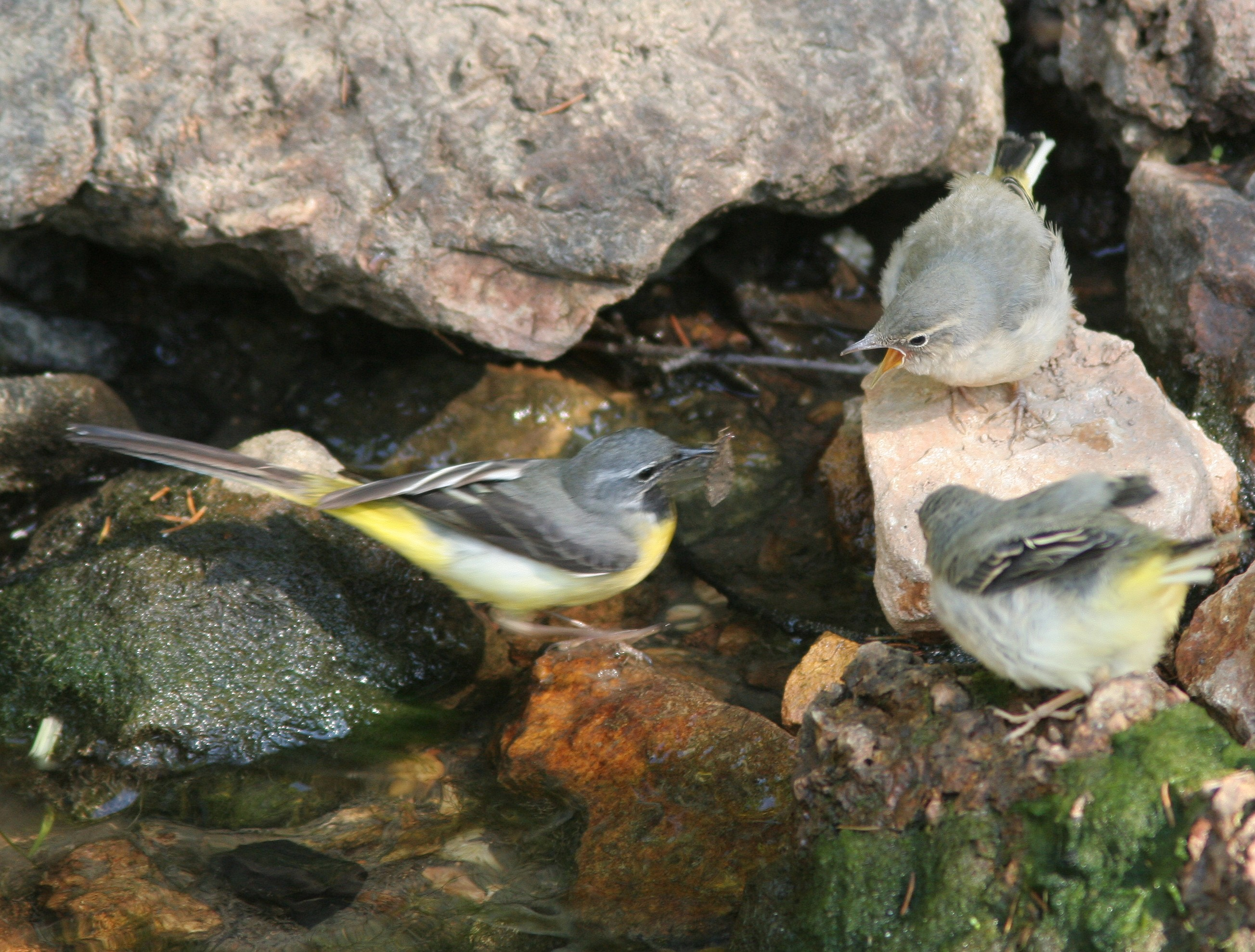 Motacilla cinerea, Motacilla cinerea (Grey Wagtail) with two youngs